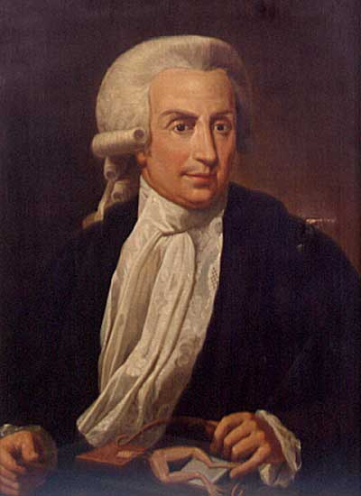 Italian physicists Luigi Galvani